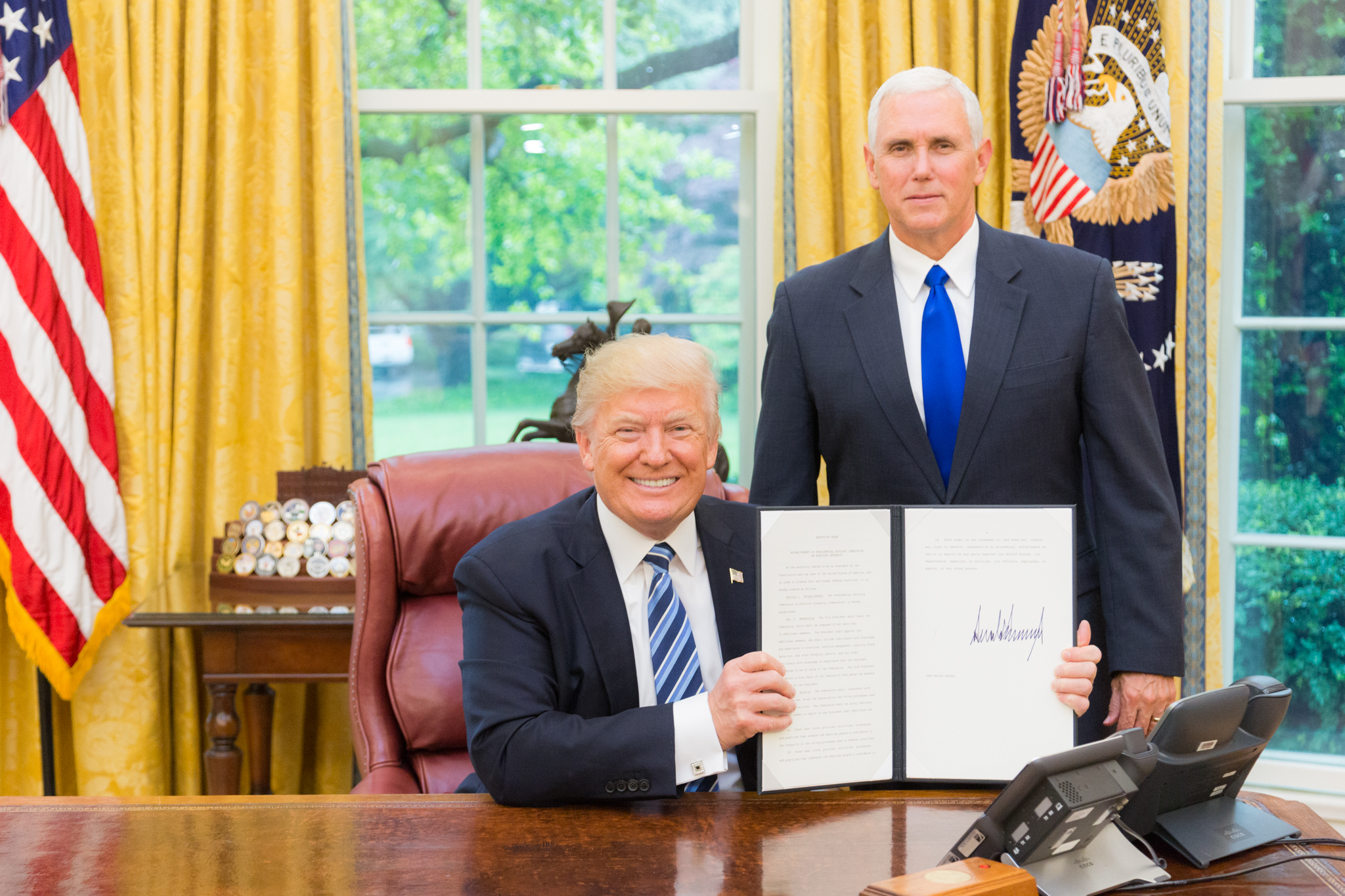 President Donald Trump displays his signed Executive Order for the Establishment of a Presidential Advisory Commission on Election Integrity.